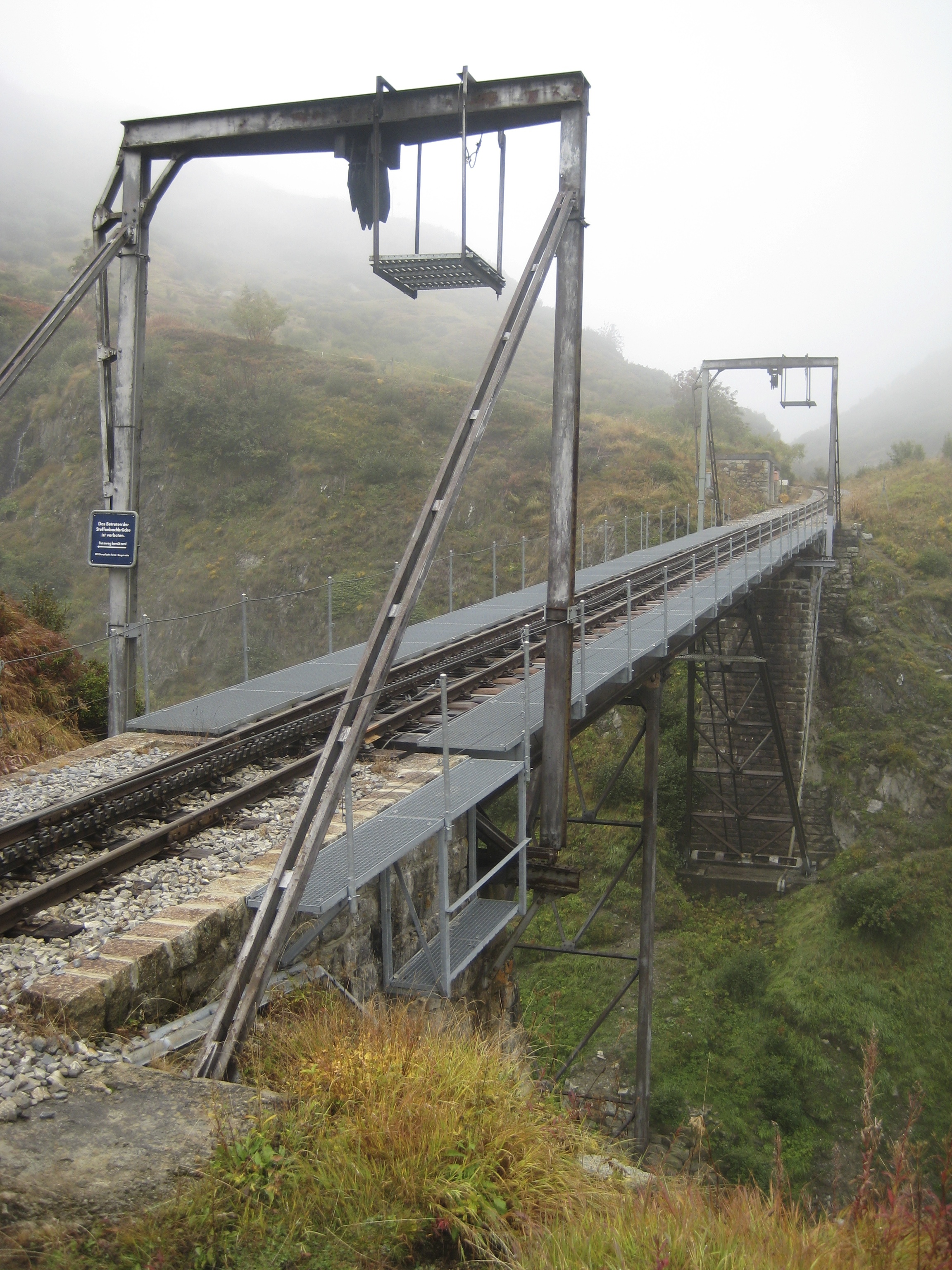 Steffenbach bridge seen from East